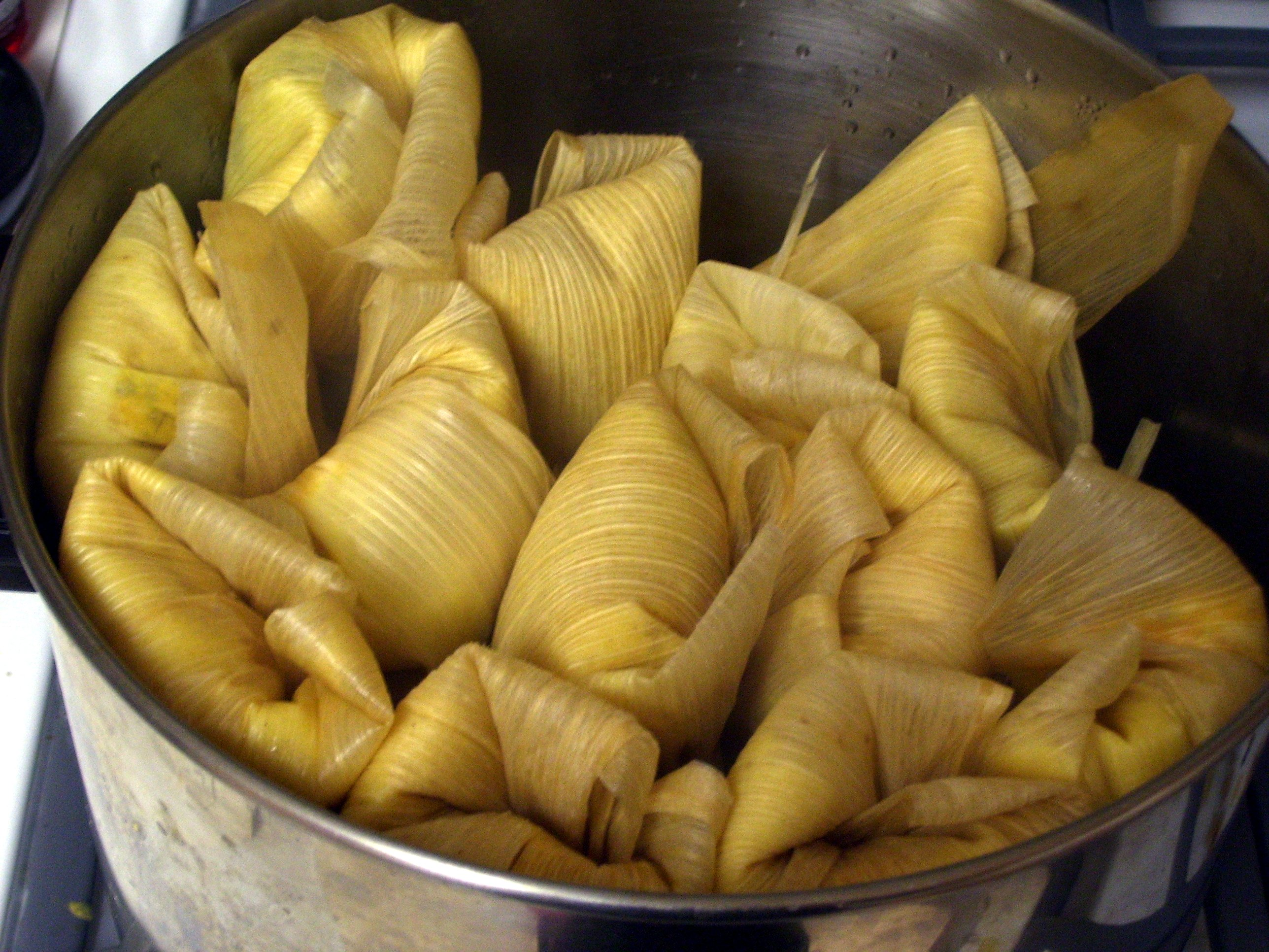 I made Black Bean & Goat Cheese Tamales the other day. They were tasty.